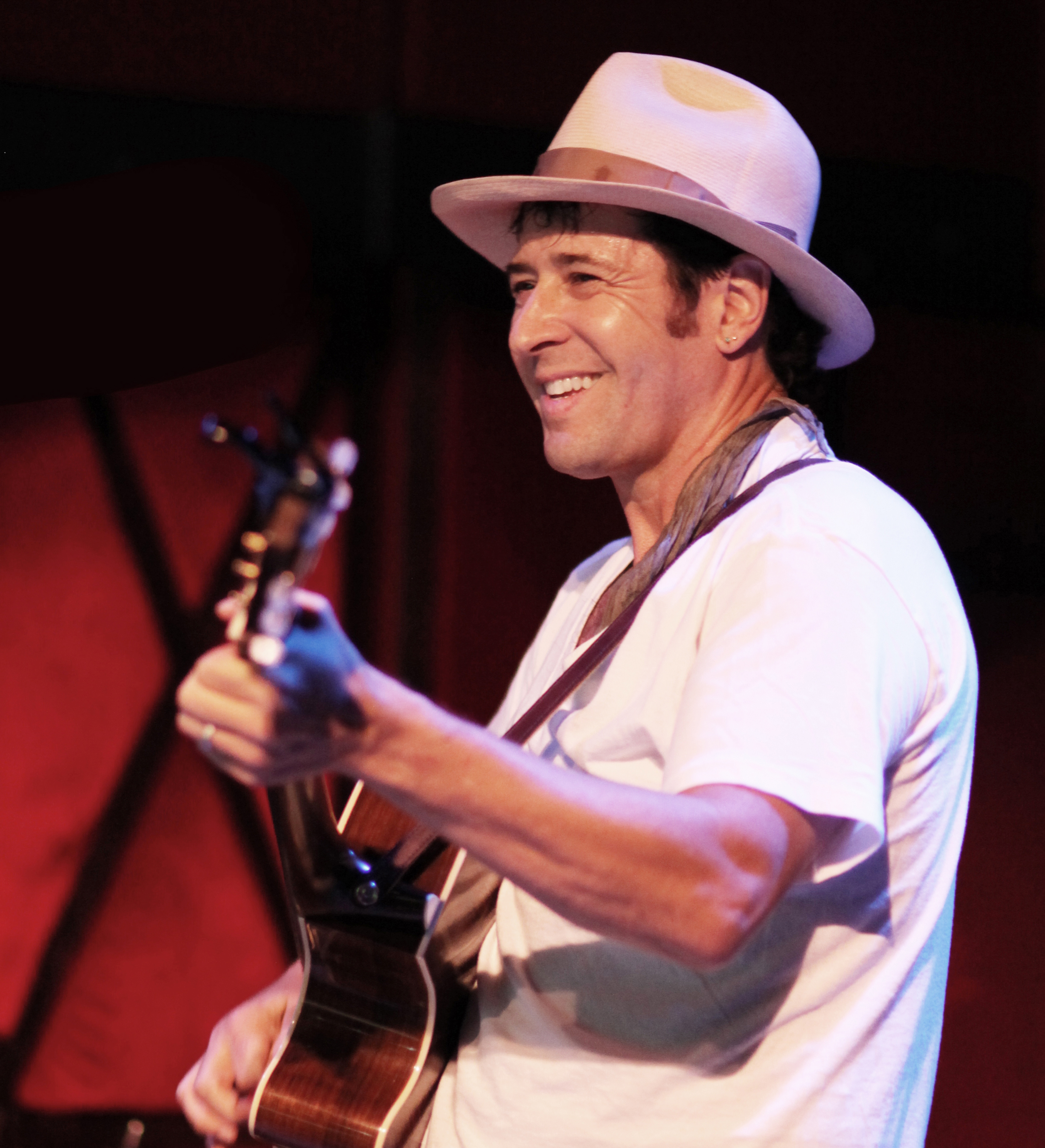 Rob Morrow playing at Rockwood Music Hall in July 2014.